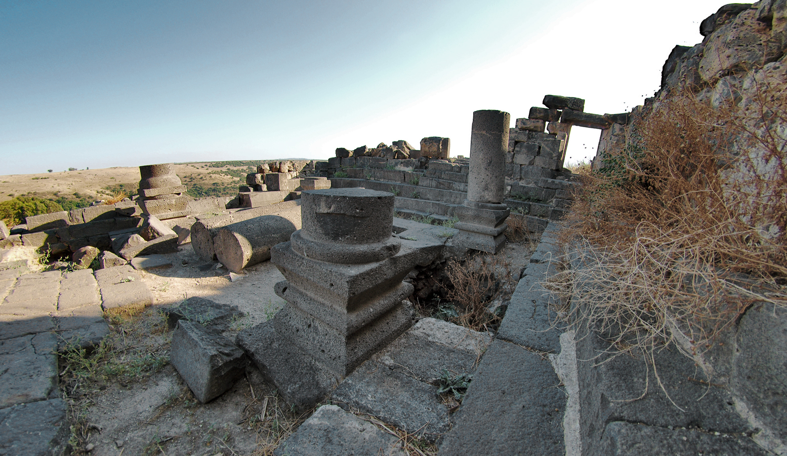 The ruins of the synagogue Deir Aziz (Golan Heights, Israel). Columns of black basalt on pedestals with hinge elements.